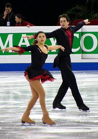 Milica Brozovic and Vladimir Futas at the 2004 European Figure Skating Championships